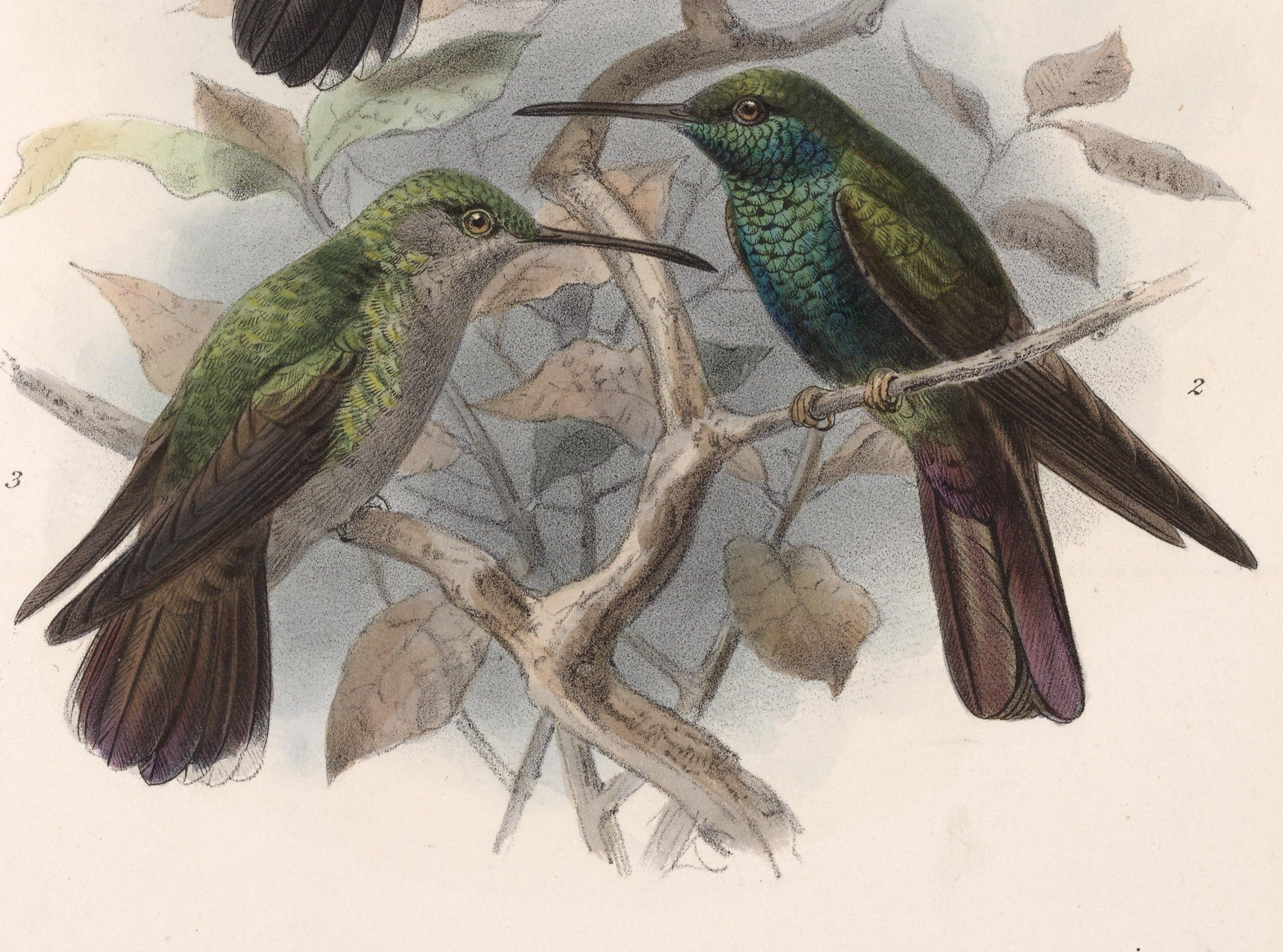 « Chalybura melanorrhoa » = Chalybura urochrysia melanorrhoa (Subspecies of Bronze-tailed Plumeleteer) - male and female